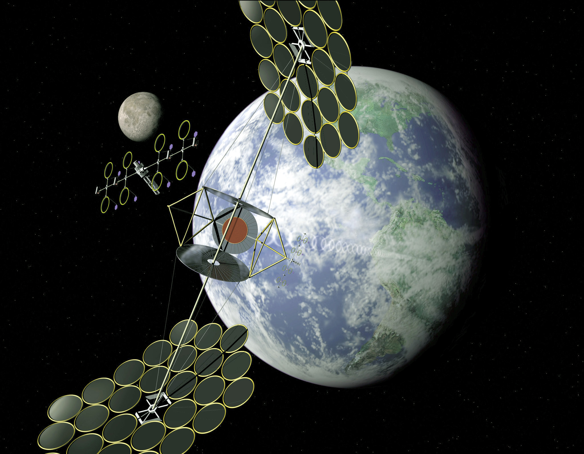 sps in front, solar clipper (space tug) top left